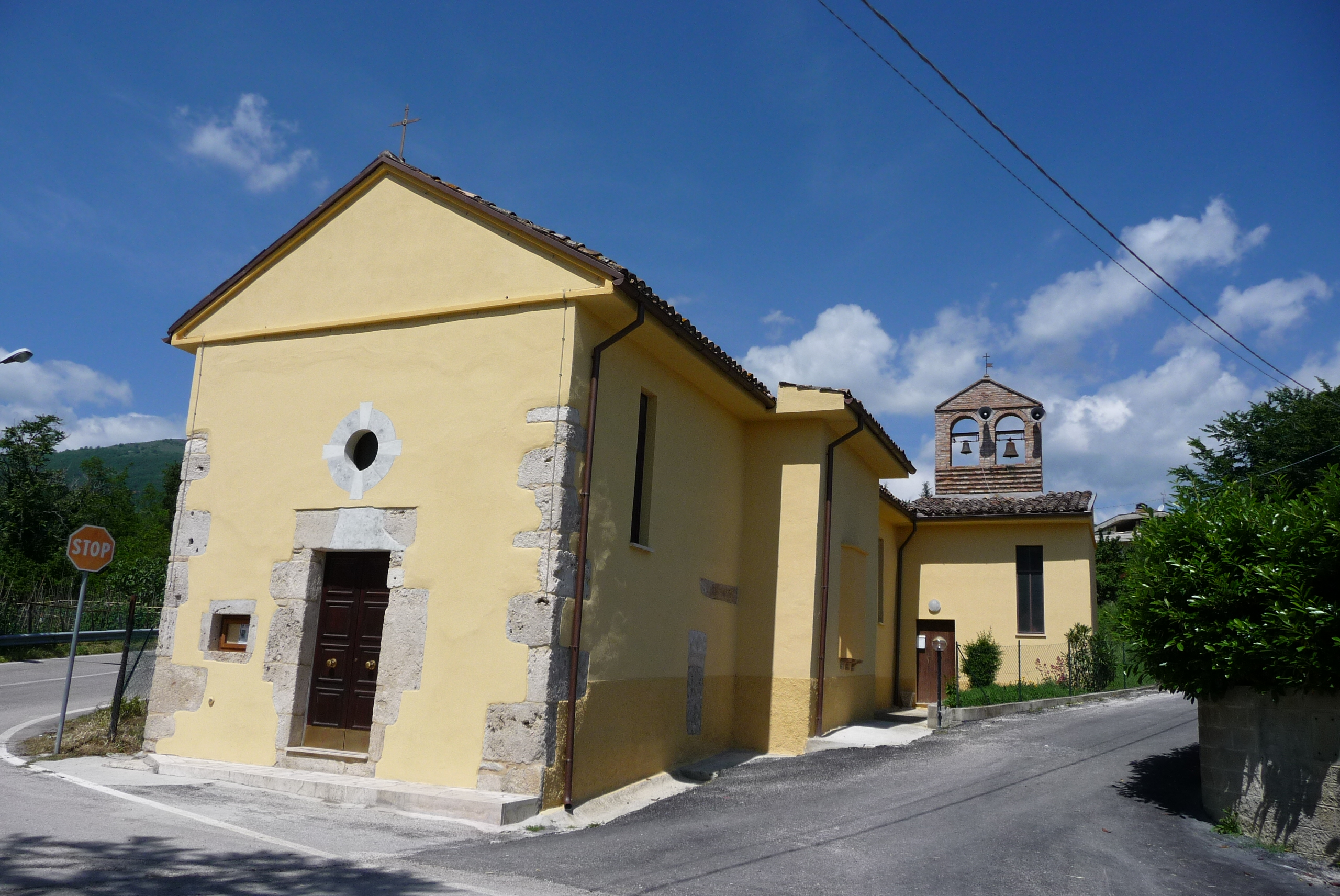 Saint Felix church in Putignano (village of Teramo, Italy)